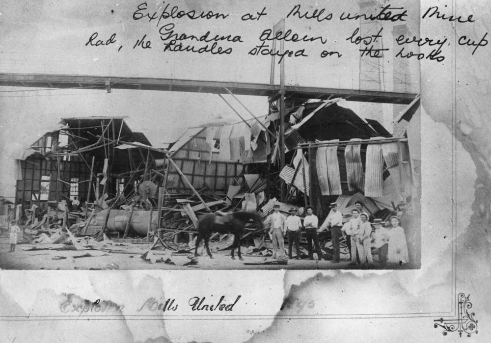 Mills Day Dawn United Mine after an explosion, 1895.